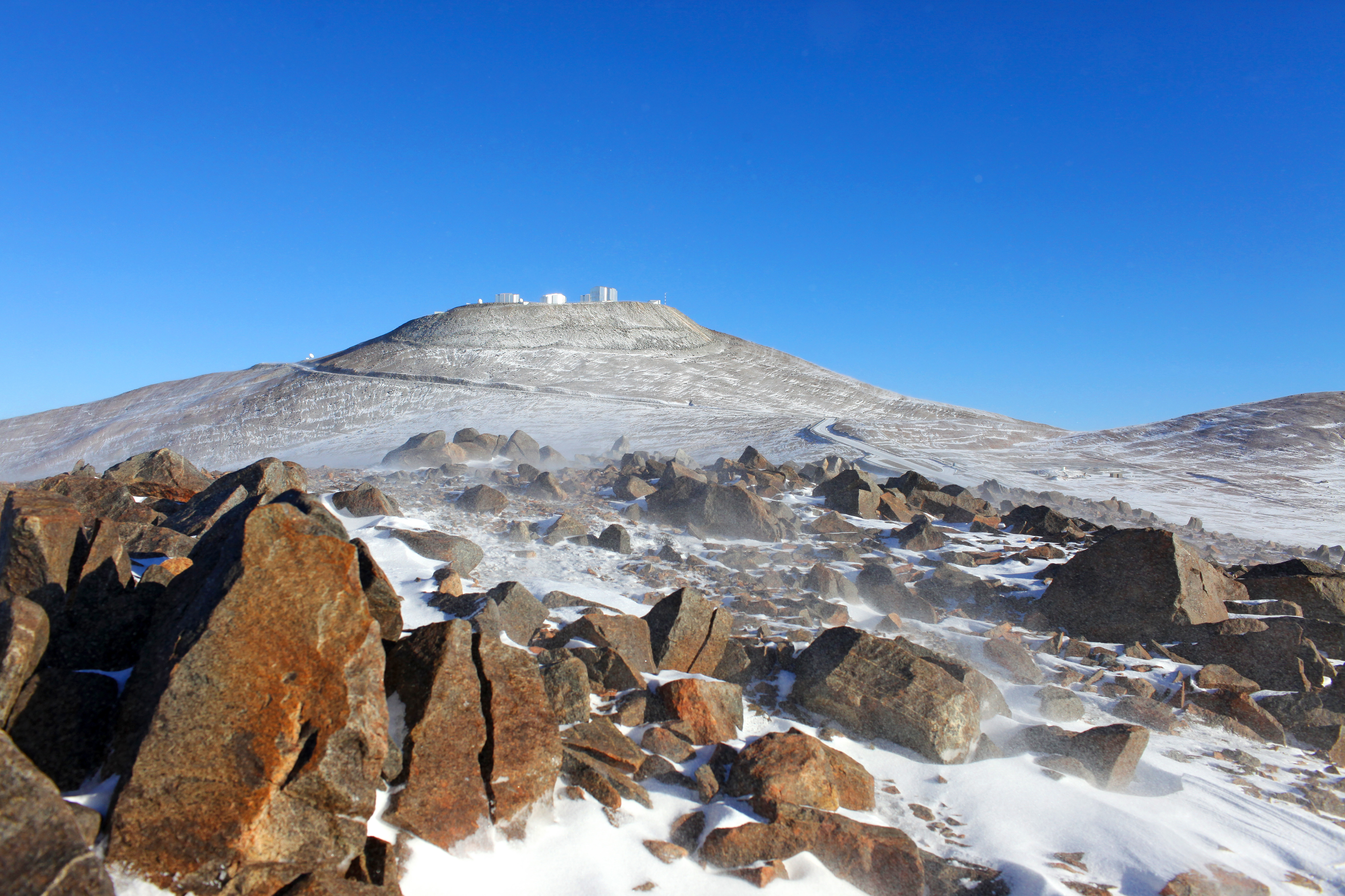 The domes of ESO’s Very Large Telescope sit atop Cerro Paranal, basking in the sunlight of another glorious cloudless day. But something is different about this picture: a fine layer of snow has settled across the desert landscape. This isn’t something you see every day: quite the opposite in fact, as the Atacama Desert gets almost no precipitation. Several factors contribute to the dry conditions in the Atacama. The Andes mountain range blocks rain from the east, and the Chilean Coast Range from the west. The cold offshore Humboldt current in the Pacific Ocean creates a coastal inversion layer of cool air, which prevents rain clouds from developing. A region of high pressure in the south-eastern Pacific Ocean creates circulating winds, forming an anticyclone, which also helps to keep the climate of the Atacama dry. Thanks to all these factors, the region is widely regarded as the driest place on Earth! At Paranal, the precipitation levels are usually just a few millimetres per year, with the humidity often dropping below 10%, and temperatures ranging from -8 to 25 degrees Celsius. The dry conditions in the Atacama Desert are a major reason why ESO chose it, and Cerro Paranal, to host the Very Large Telescope. While the very occasional snowfall may temporarily disrupt the dry conditions here, it does at least produce unusual views of rare beauty. This photograph was taken by ESO Photo Ambassador Stéphane Guisard on 1 August 2011.